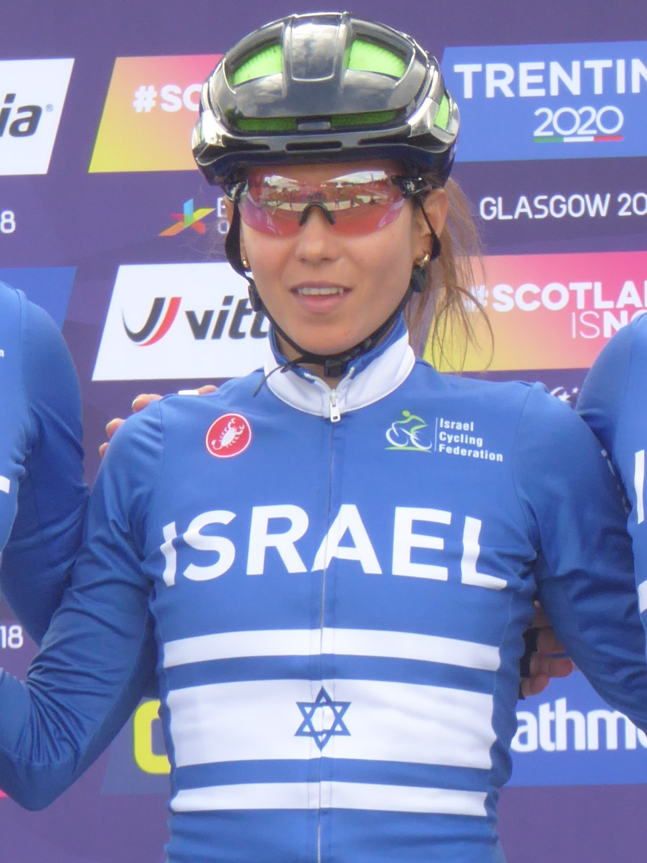 Omer Shapira (Israel), prior to the women's road race at the 2018 UEC European Road Cycling Championships in Glasgow.